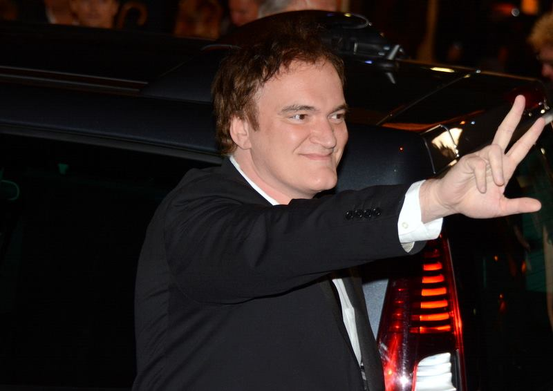 Quentin Tarantino in Paris at the César Awards ceremony